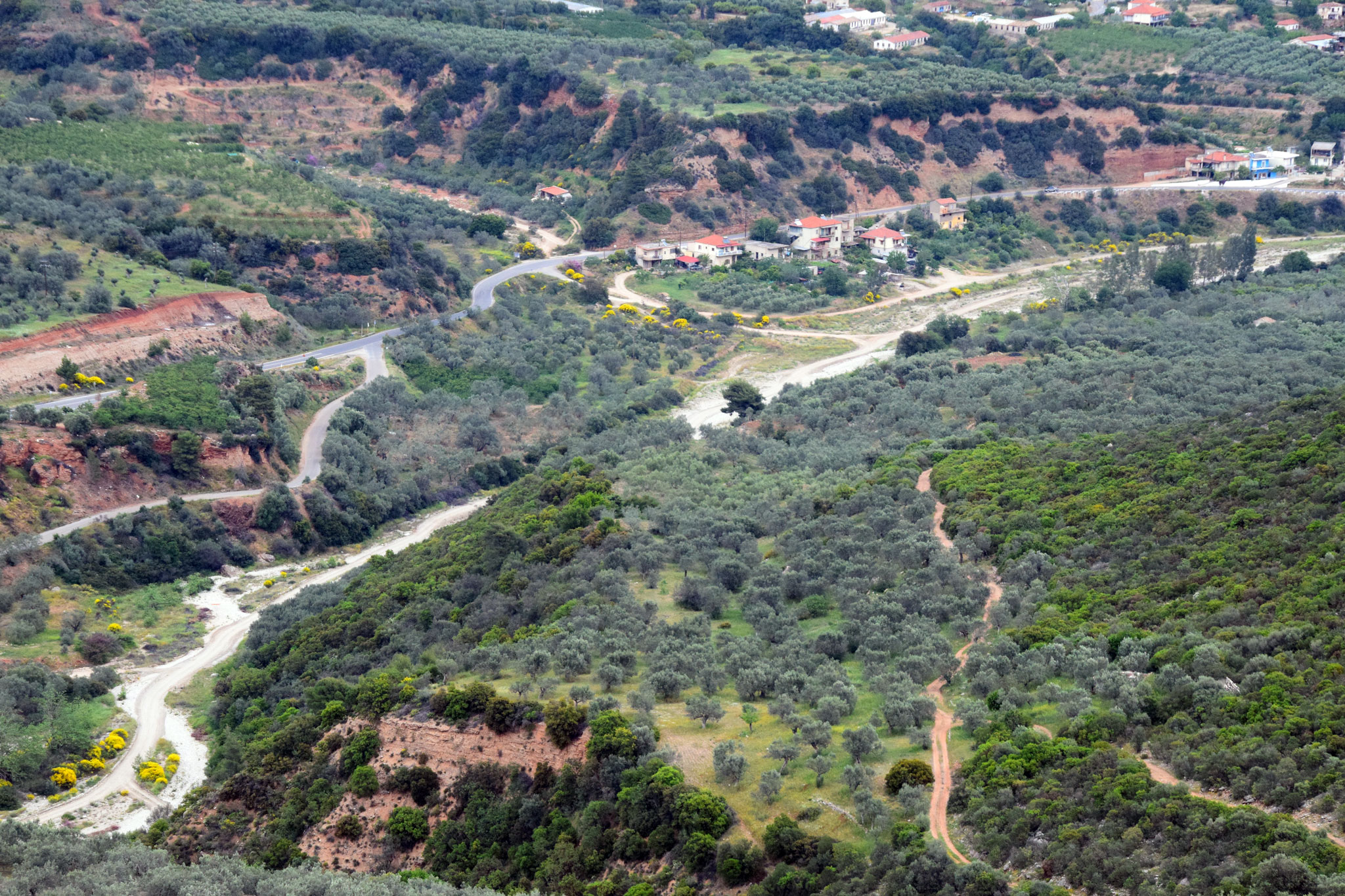 River Tanos passing through the village of Kato Doliana, in the prefecture of North Kynouria in Arcadia, Greece.